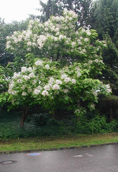 Catalpa bignonioides: Flowering tree